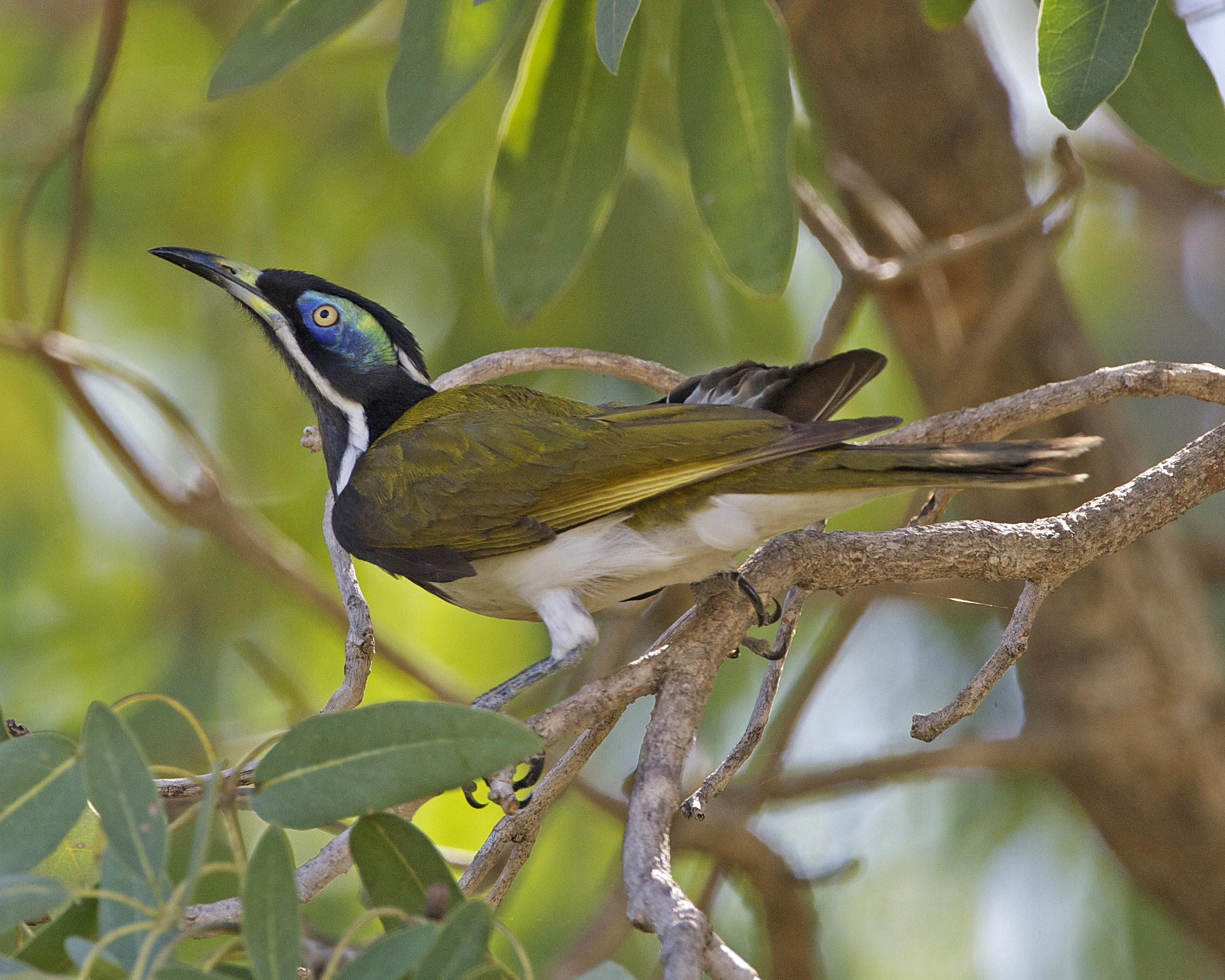 Blue-faced Honeyeater Entomyzon cyanotis ssp Entomyzon cyanotis albipennis Humpty Doo, Northern Territiry, Australia 10th. August 2010 690V0112